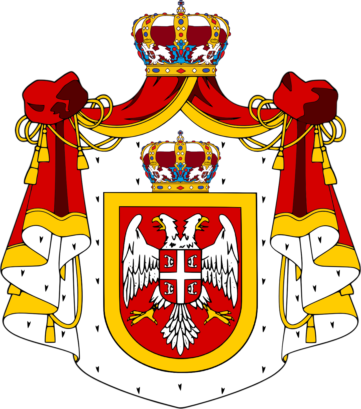 Coat of arms of Prince Alexander of Yugoslavia